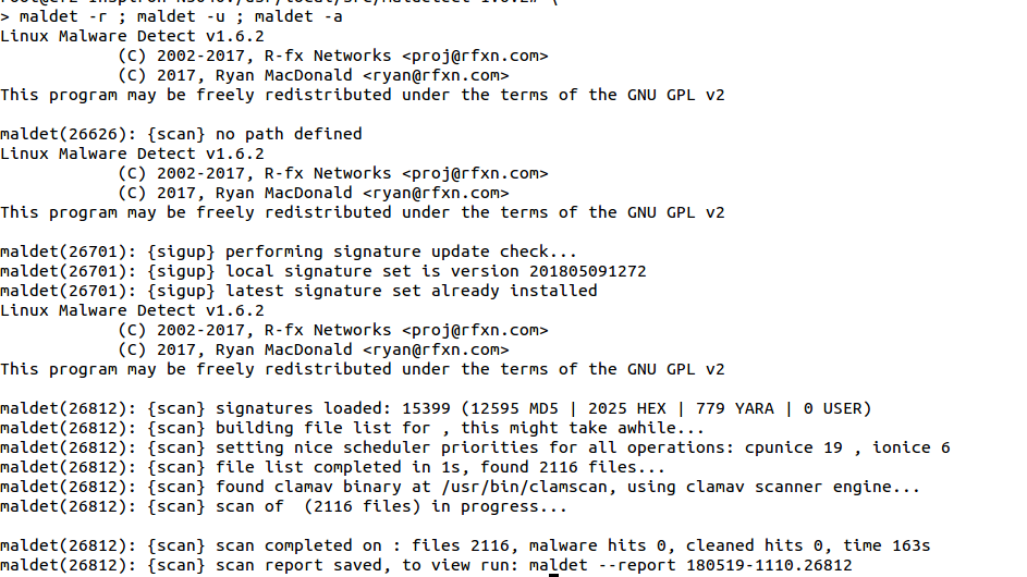 Screenshot of a run of LMD / maldet that I made myself